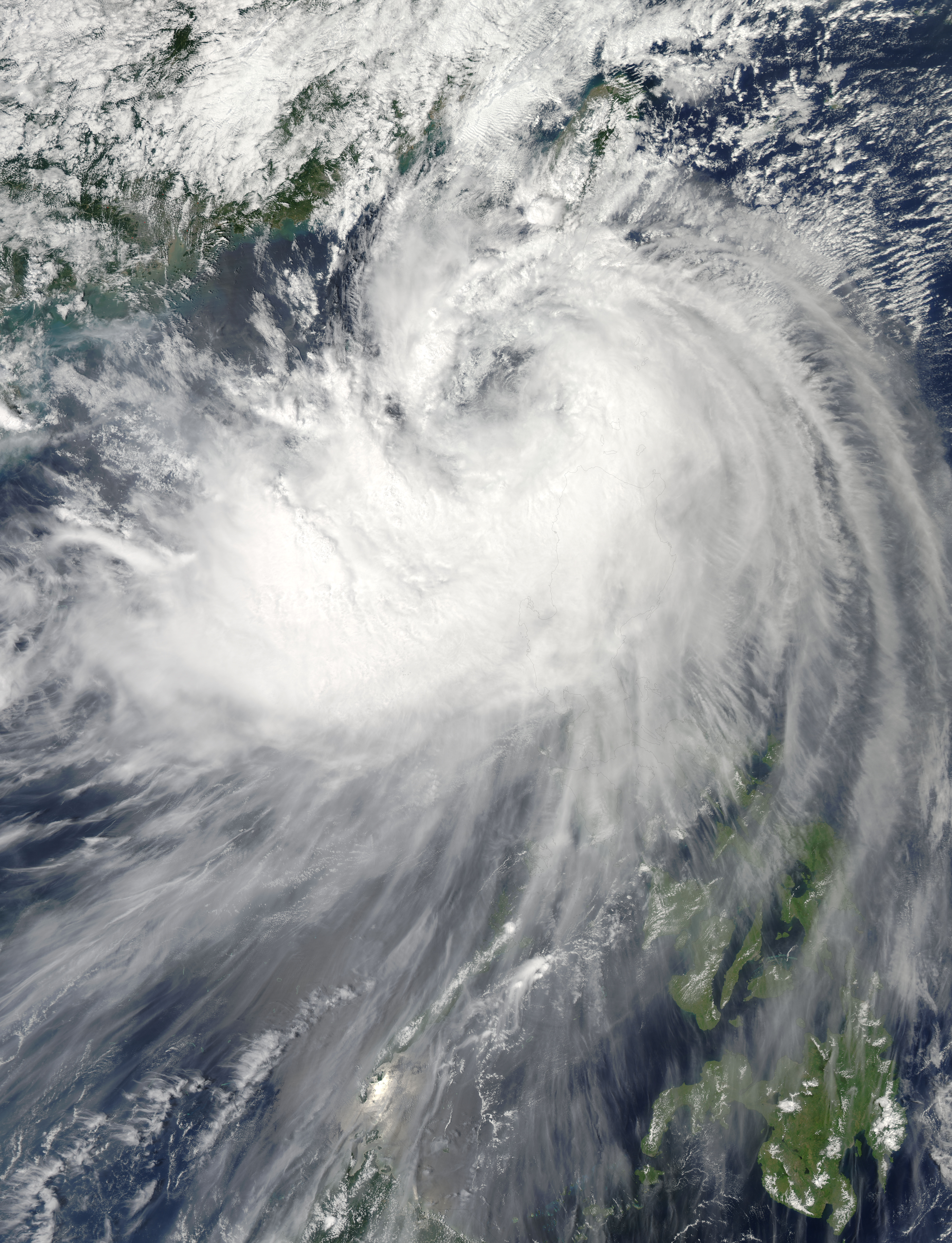 Tropical Storm Fung-wong (16W) approaching Taiwan